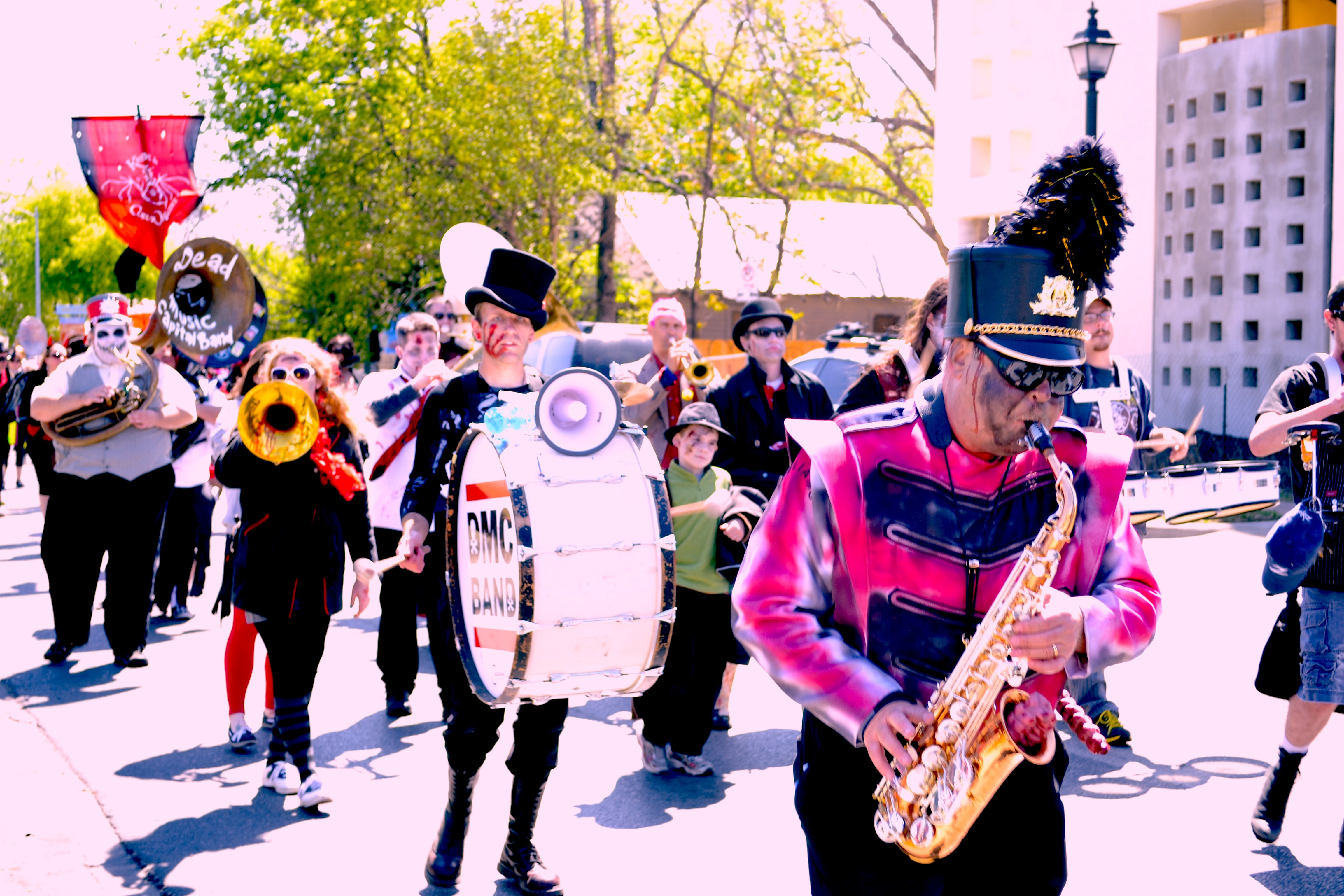 Dead Musical Capitol Band playing at the Honk! festival in Austin, TX. 2013